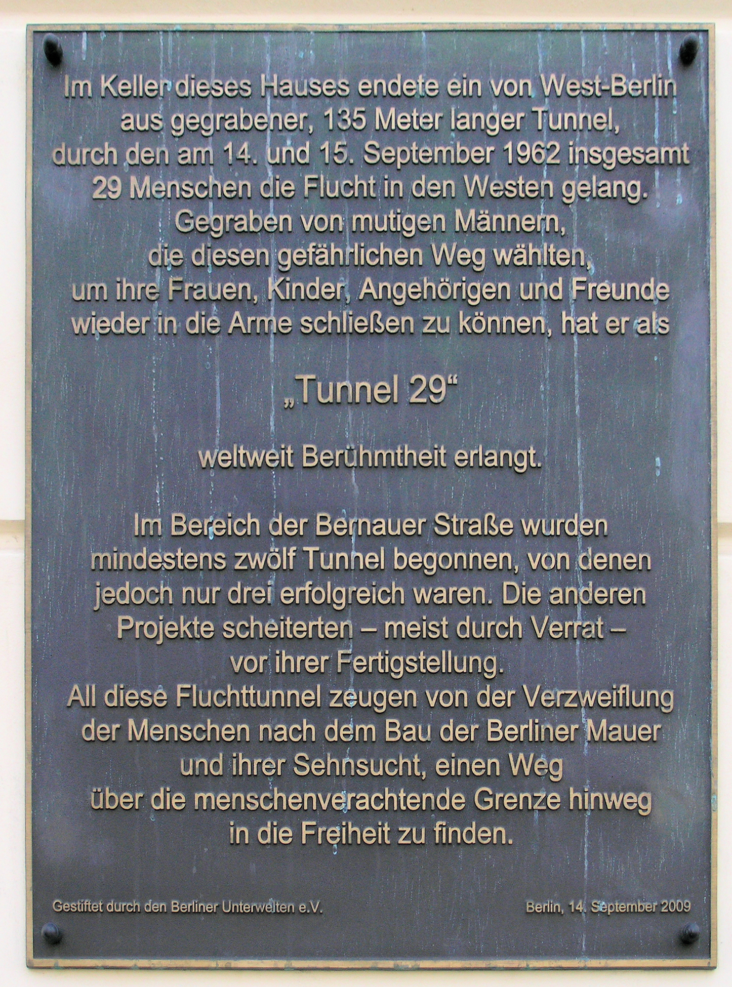 Memorial plaque, Tunnel 29, Schönholzer Straße 7, Berlin-Mitte, Germany Koordinate:52°32′17″N 13°23′54″E / 52.53806°N 13.39833°E